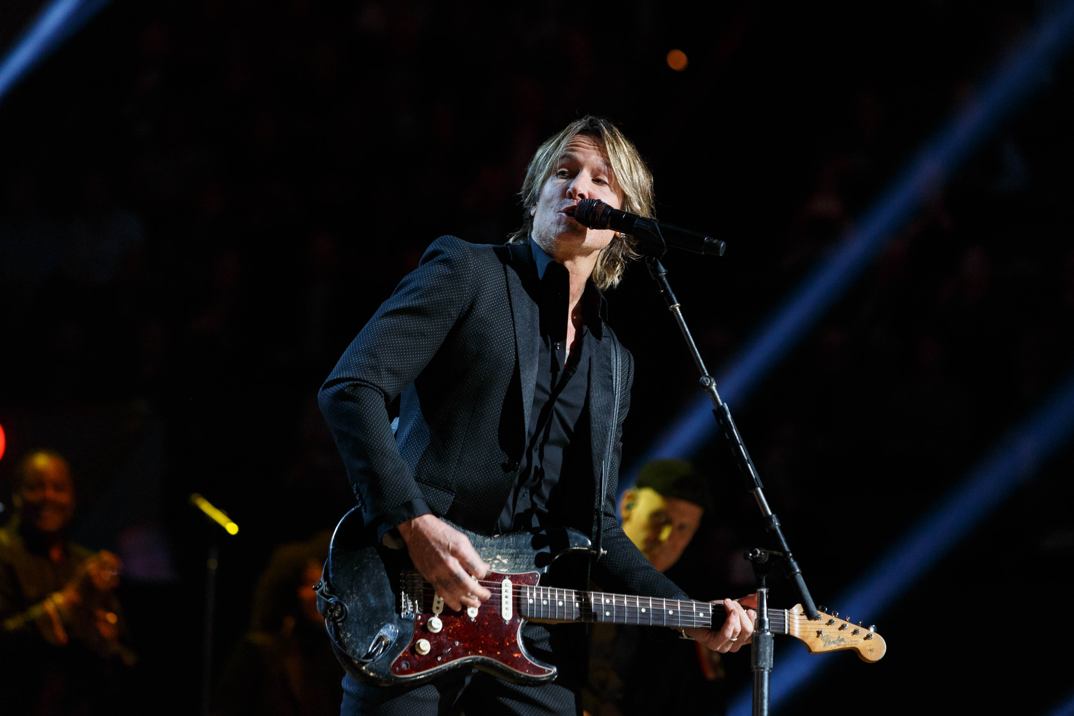 Keith Urban performs at the 2020 Library of Congress Gershwin Prize for Popular Song concert at DAR Constitution Hall in Washington, D.C., March 4, 2020. Photo by Shawn Miller/Library of Congress. Note: Privacy and publicity rights for individuals depicted may apply.